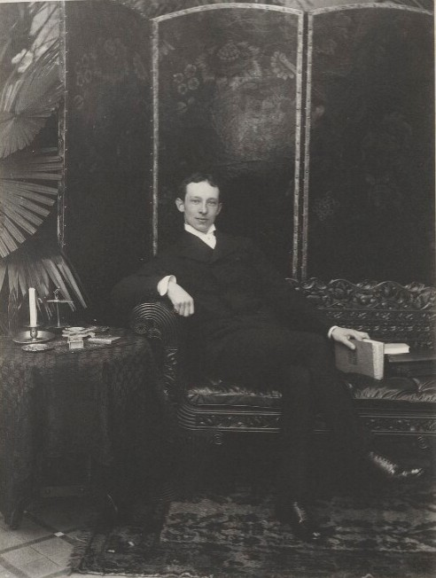 Portrait of Sir Alfred Pease, 2nd Baronet (1857–1939), British politician and settler in Kenya.